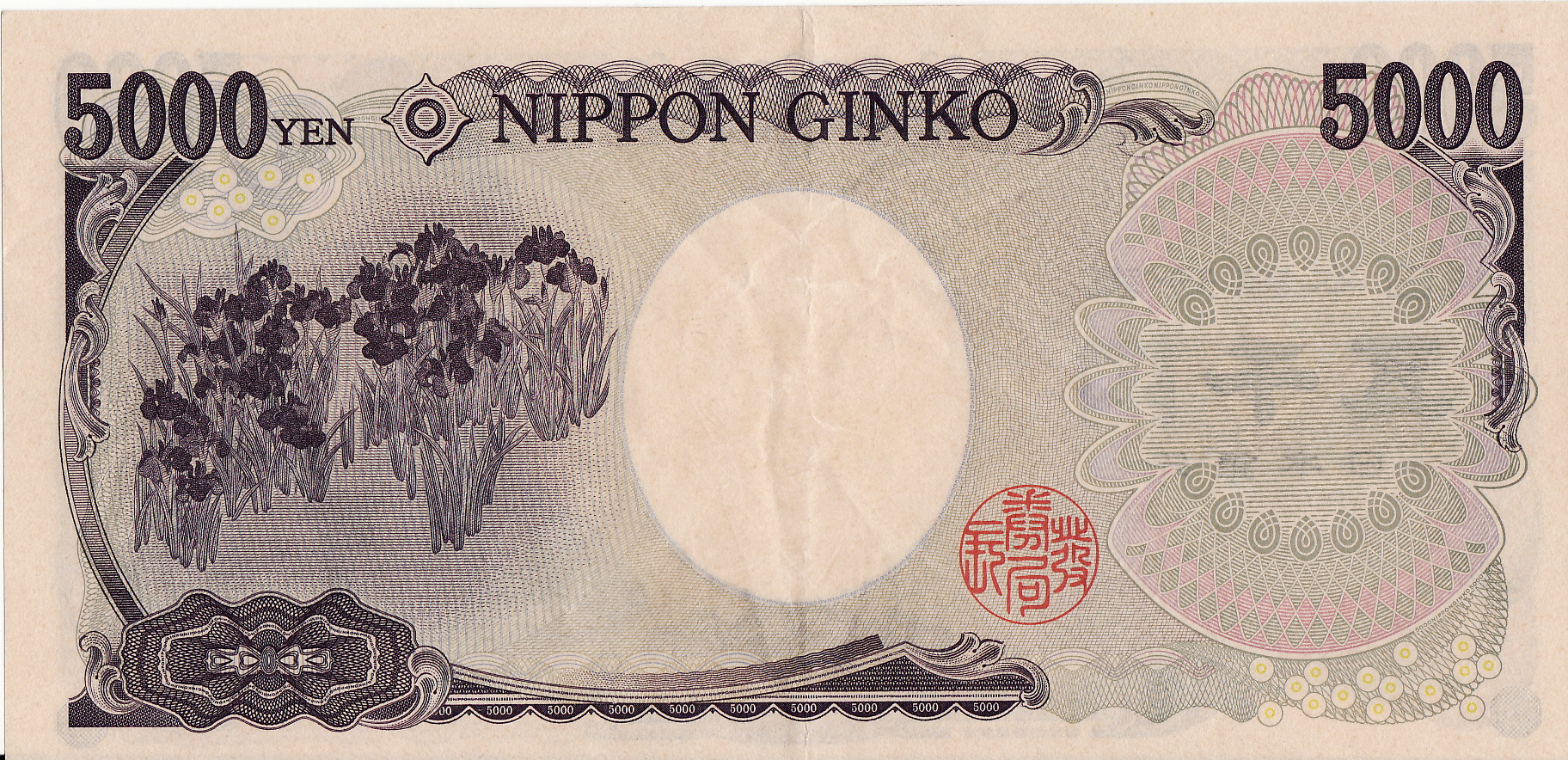 5000 yen banknote, 2004 (back)